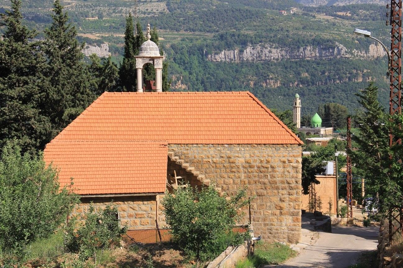 بيوت الرب